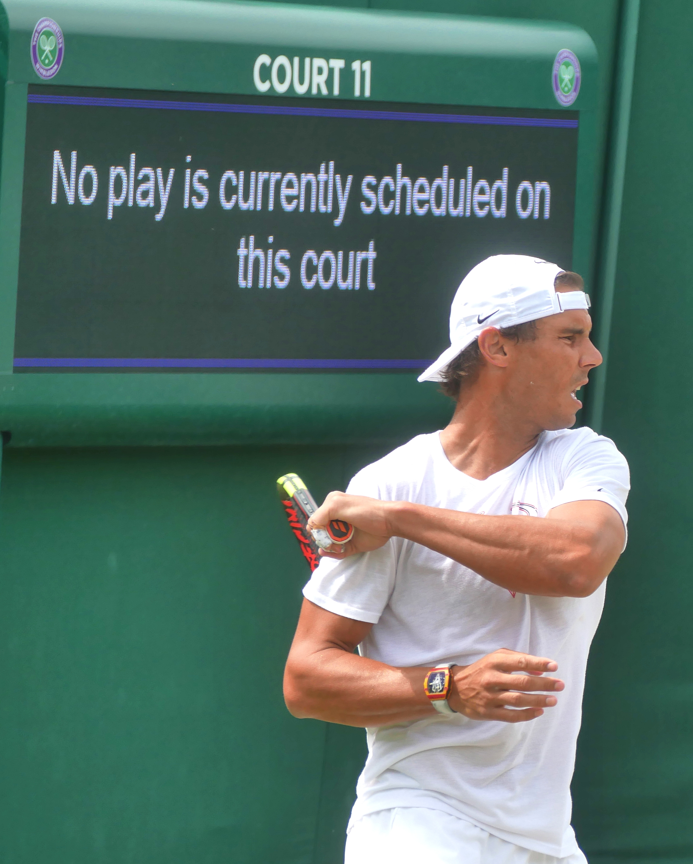 Rafael Nadal practices on an outside court at Wimbledon July 2019